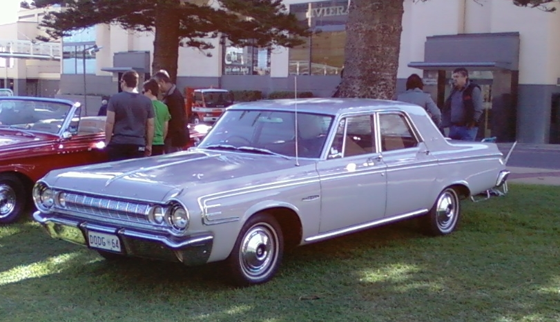 1964-65 Dodge Phoenix Sedan at Glenelg in South Australia.